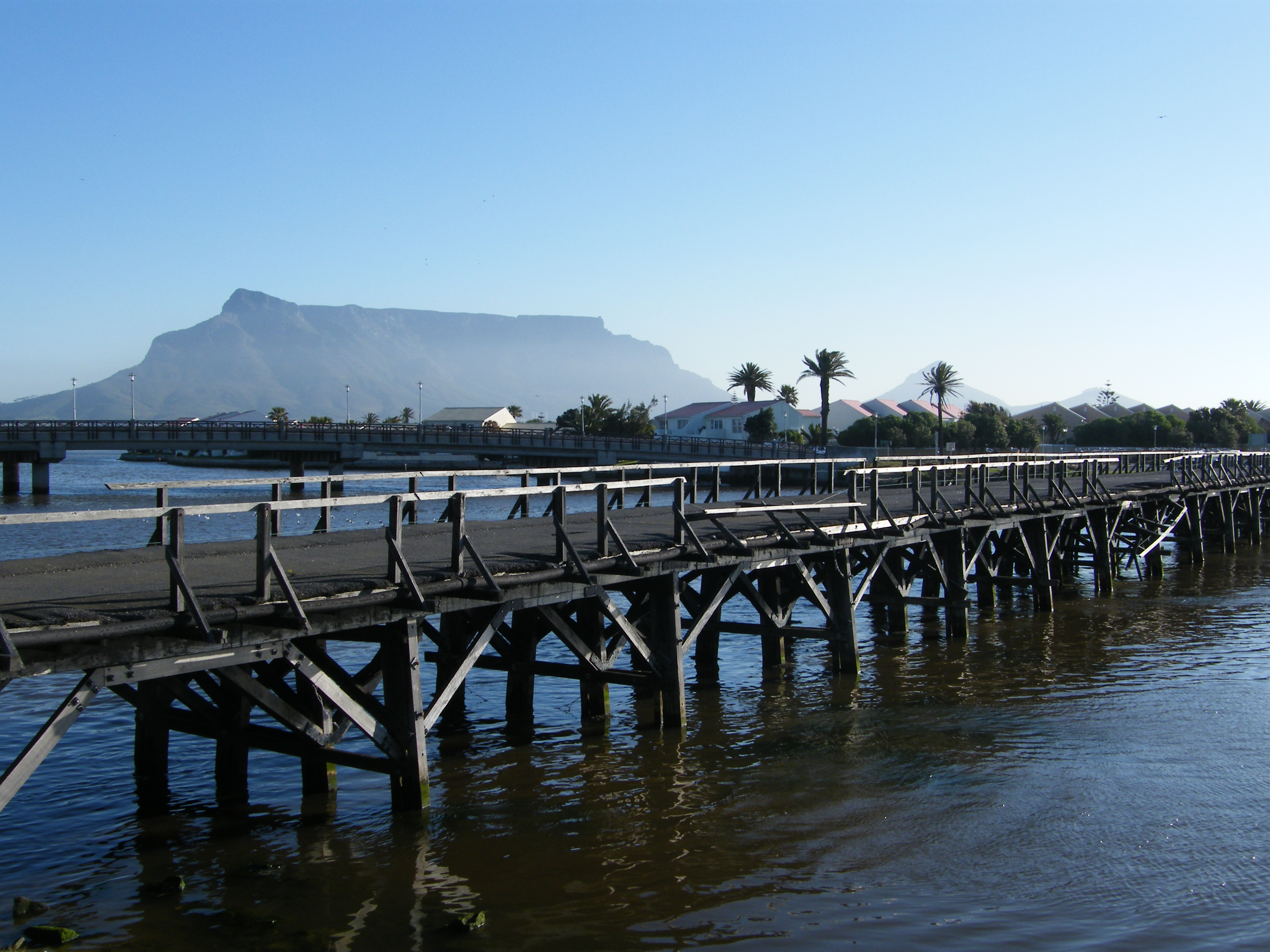 Old Wooden Bridge